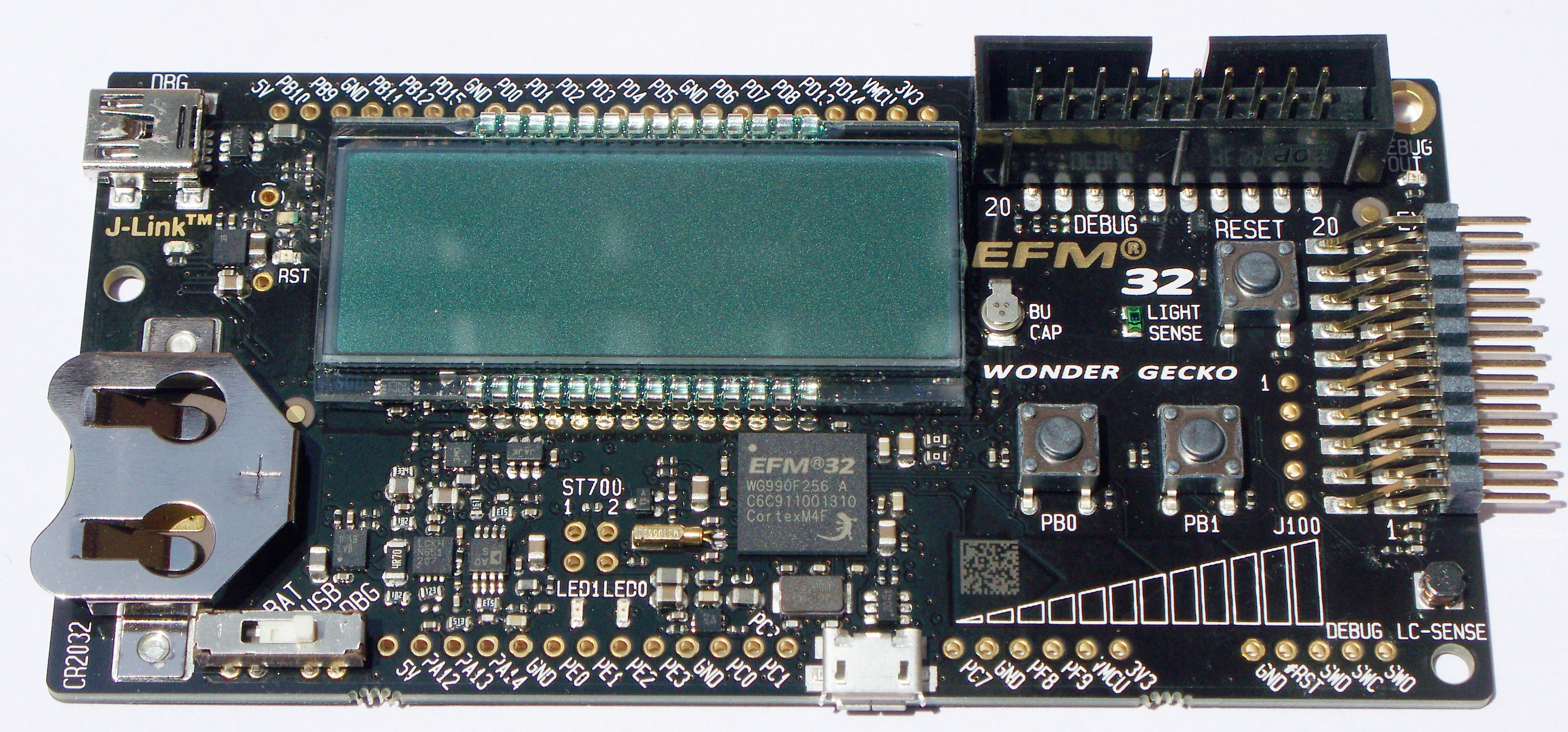 Energy Micro Wonder Gecko Starter Kit with EFM32WG990F256 (ARM Cortex-M4F) Microcontroller